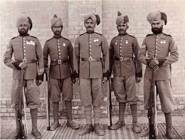 52nd Sikh-Regiment Kohat,-Khyber-Pakhtunkhwa-province,-Pakistan-1905-3